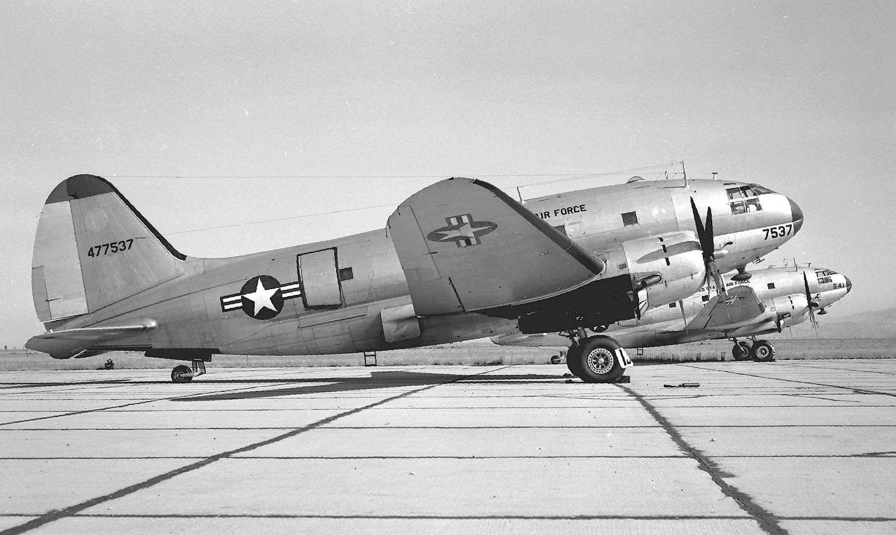 Curtiss C-46D-10-CU (44-77537) at Boise, Idaho, in August 1952.